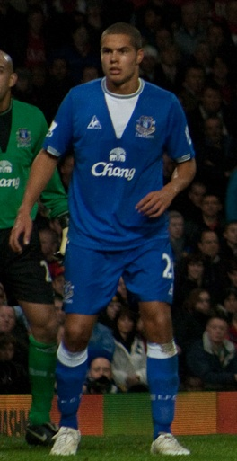 Jack Rodwell of Everton F.C., in a match against Manchester United F.C. in November 2009 This file has been extracted from another file: Michael Owen Johnny Heitinga 2.jpg